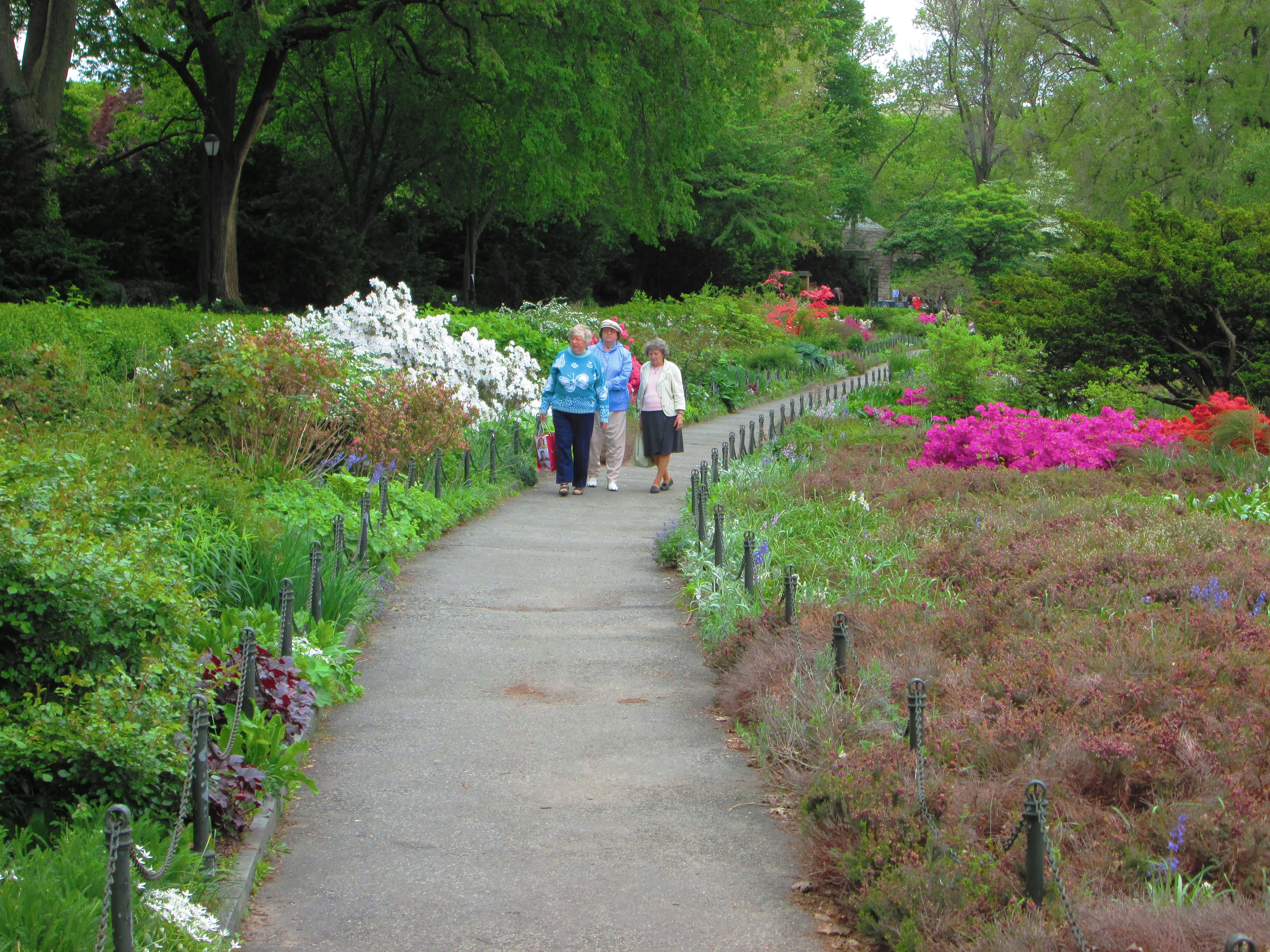 Part of the Heather Garden, one of the primary gardens of Fort Tryon Park.